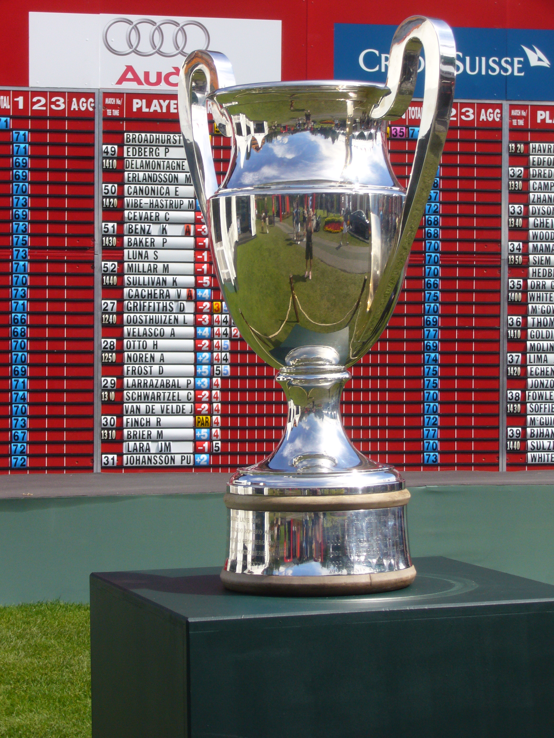 Swiss Open Trophy